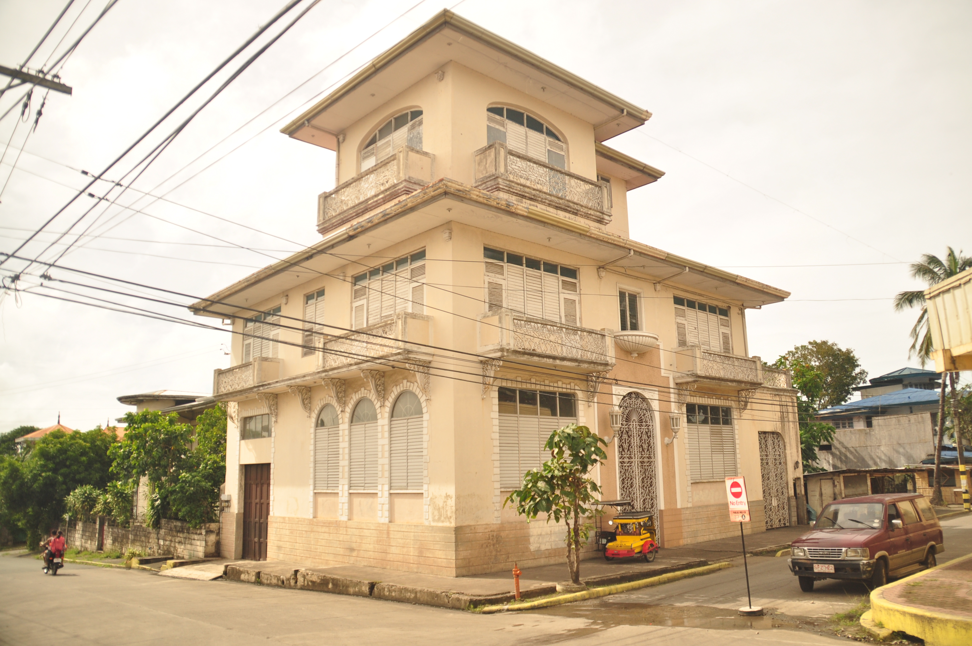 Don Cayo Gala Ancestral House, built in 1950s